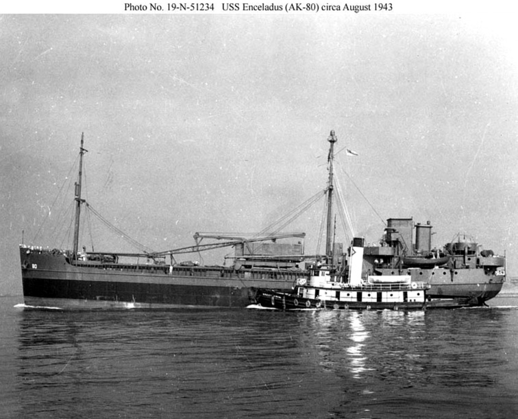 Navy Photo No. 19-N-51234, Source: U.S. National Archives, RG-19-LCM. USS Enceladus (AK-80), Maritime Commission type N3-M-A1, August 1943 in original Navy configuration. Full caption: "Photographed near Baltimore, Md., in mid or late August 1943 in her original Navy configuration. The Whirley crane is part of her original design, the two masts were added by the Navy during the ship's conversion."